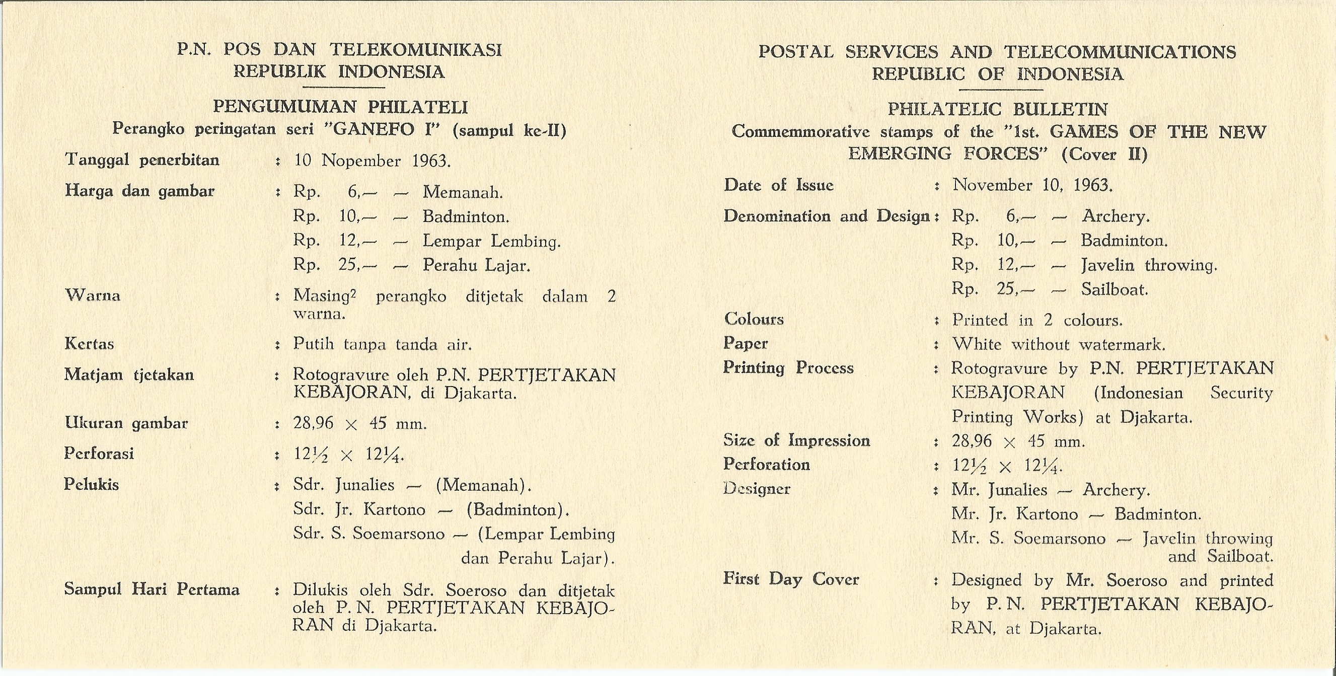 Commemmorative stamps of the "1st Games of the New Emerging Forces"